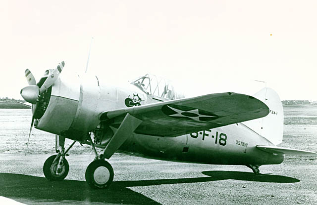 A U.S. Navy Brewster F2A-1 Buffalo (3-F-18) assigned to fighting squadron VF-3 aboard the aircraft carrier Saratoga (CV-3), 1940. Note "Felix the Cat" insignia.